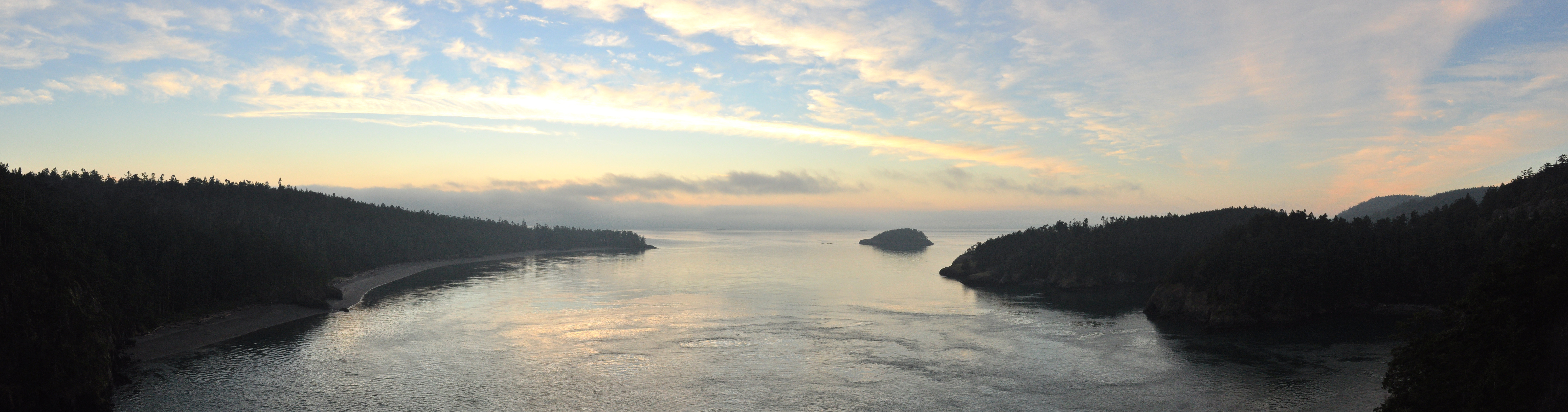 Panoramic view of Deception Pass slightly before a January sunset, looking roughly west from near the south span of the Deception Pass Bridge. This image was created with Hugin.